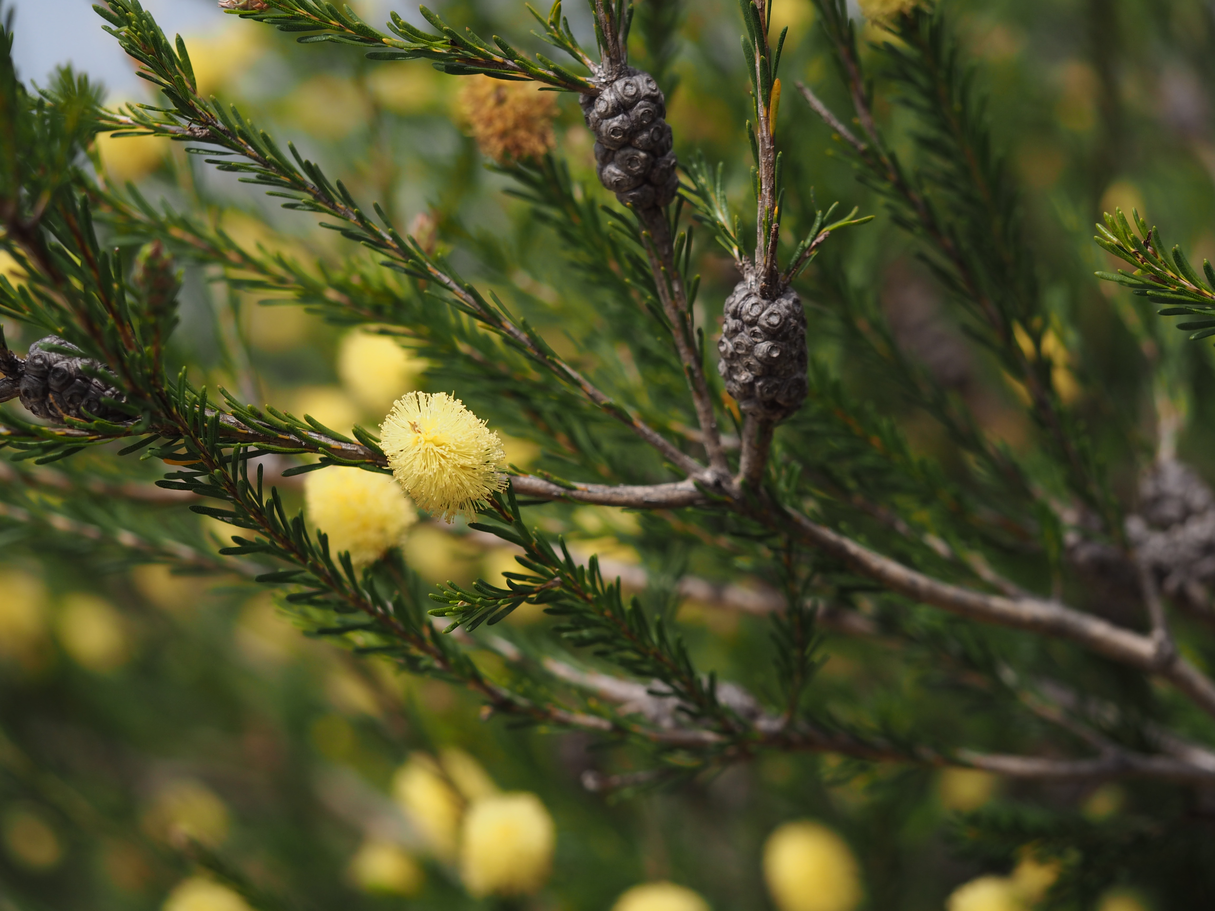 Melaleuca lutea growing near East Mount Barren